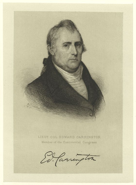 Edward Carrington, Delegate to Continental Congress from Virginia